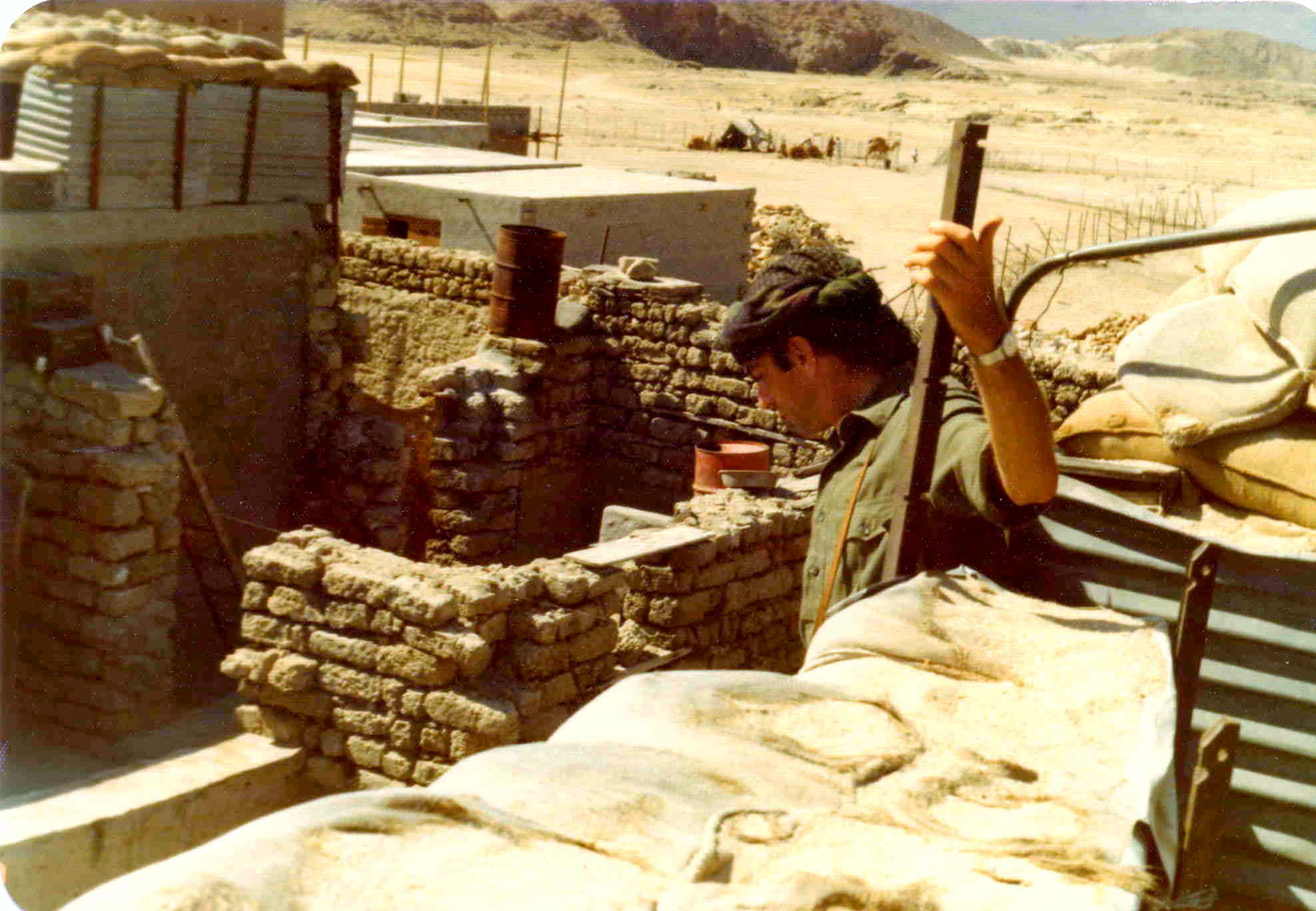 DHOFAR, Marbat - Mark Foster inside the BATT House.